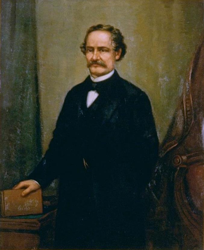 Fifth California Governor John B. Weller